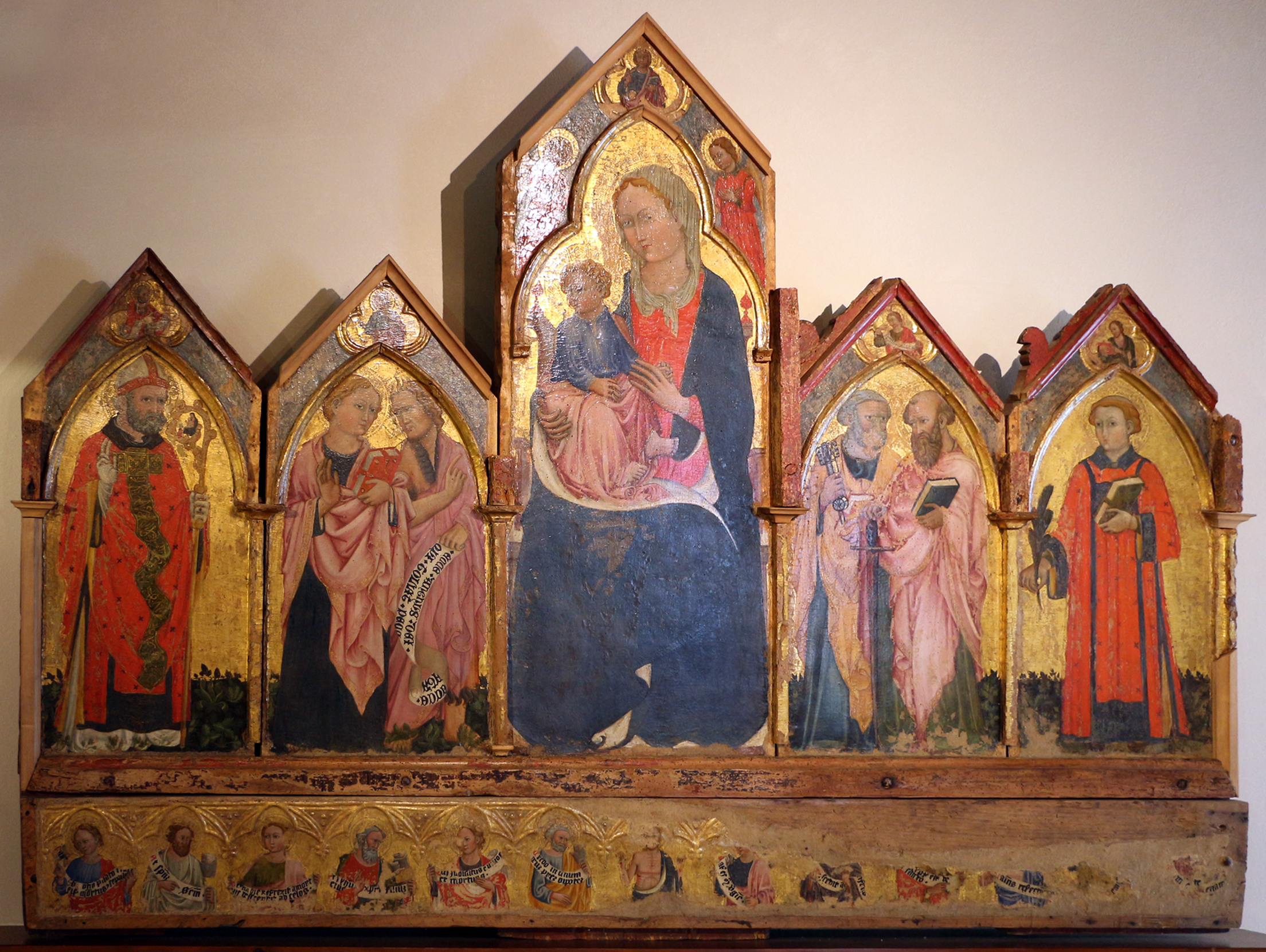 Paintings in the Museo Civico (Gualdo Tadino)